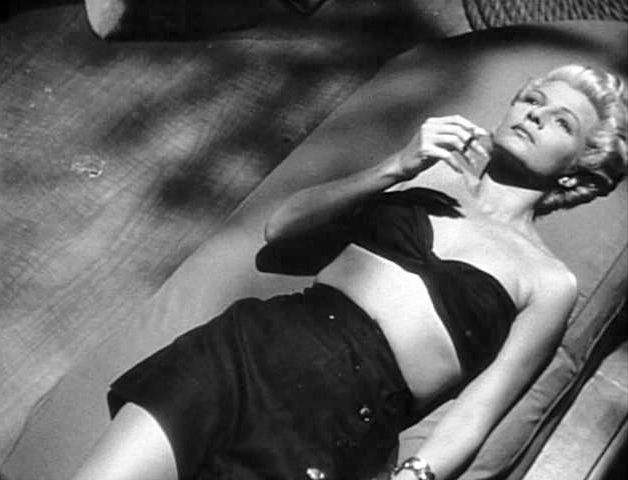 Screenshot of Rita Hayworth in the trailer for the film The Lady from Shanghai